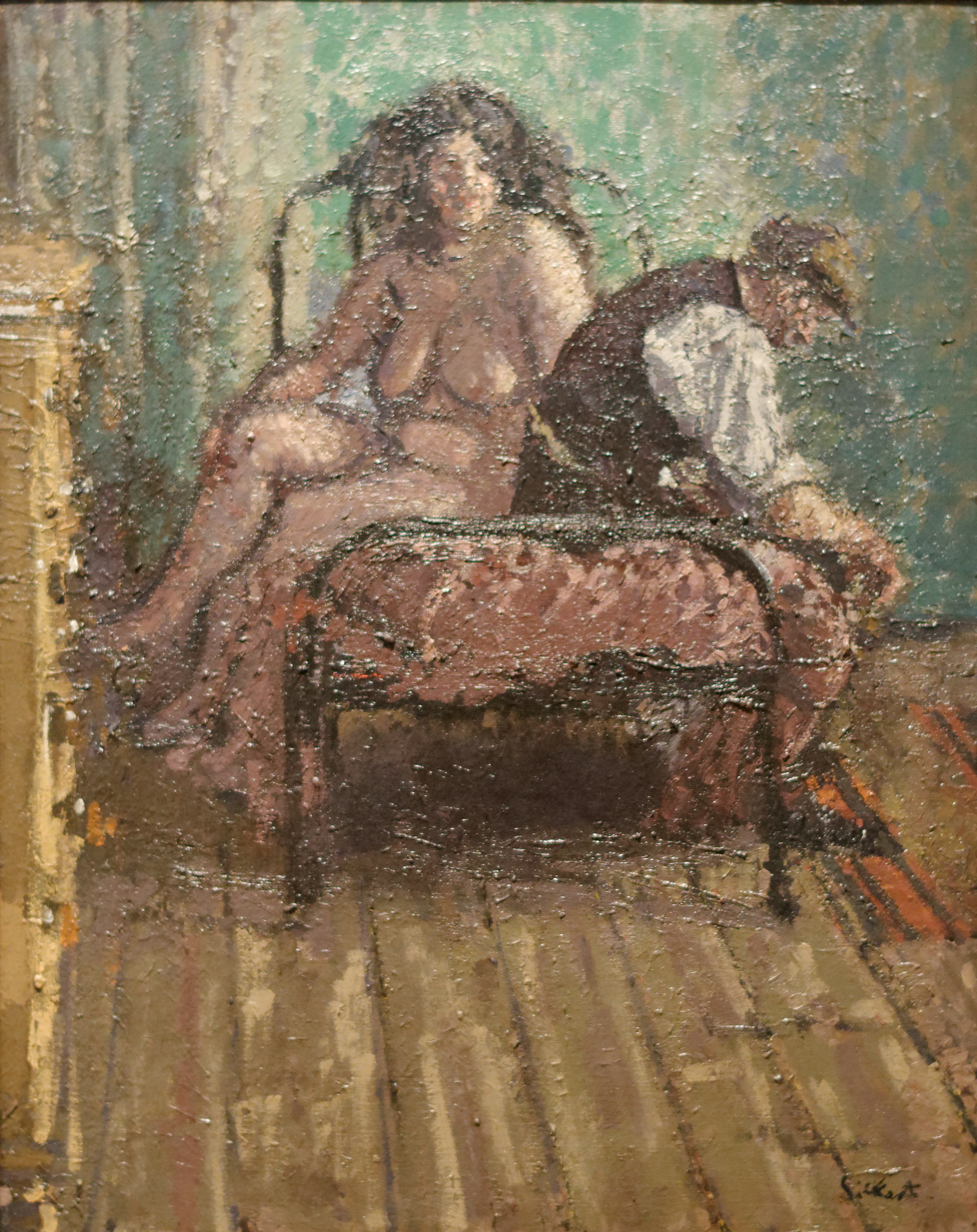 With this work Sickert began to introduce clothe male figures into his paintings of female nudes. The addition creates an unsettling and uncertain narrative, prompting speculation as to the identity of the figures. Perhaps there are a dissolute husband and wife, or, more shockingly for comtemporary viewers, a protitude and client. The sensational 1907 "Camden Town Murder" of a local prostitute was still in the popular consciousness of the time and gave added potency to Sickert's choice of subject matter.